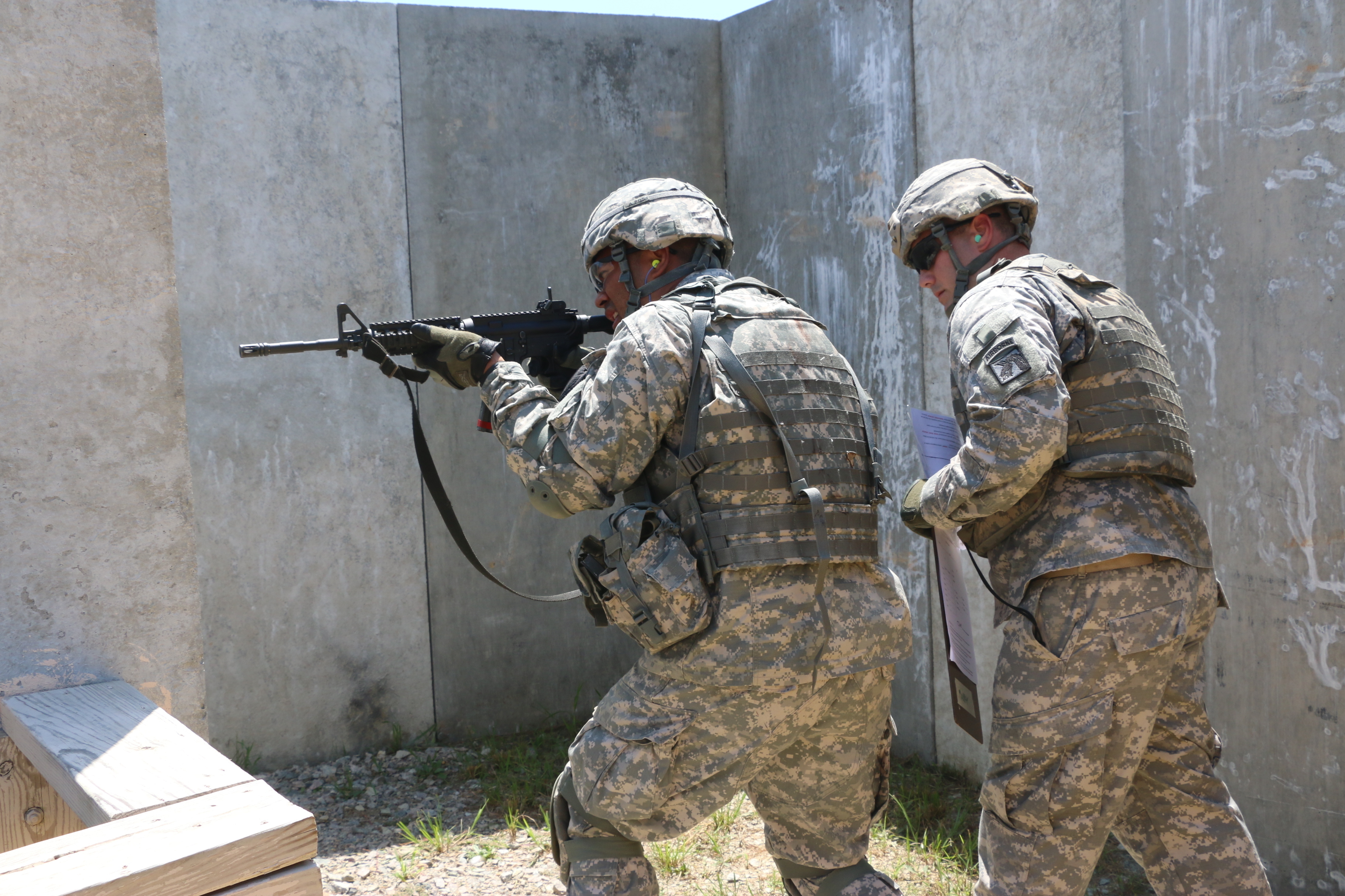 U.S. Army Sgt. Tonga H. Tukumoeatu, Jr., a trombone player with the 323rd Army Band, engages one of several targets inside a simulated building during a stress shoot at Fort Bragg, N.C., Aug. 26, 2014.